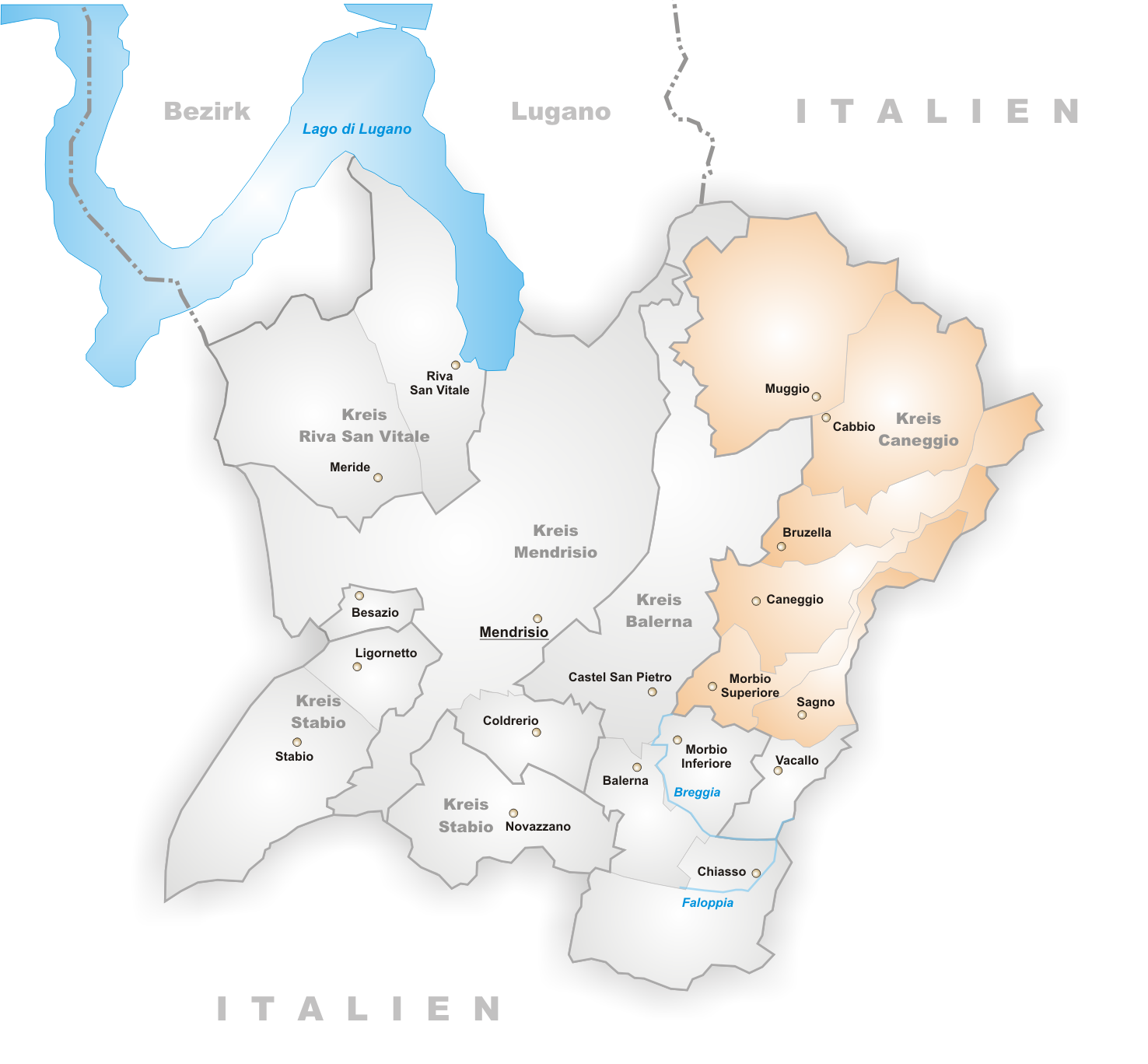 Municipalities of District Mendrisio until 10.2009